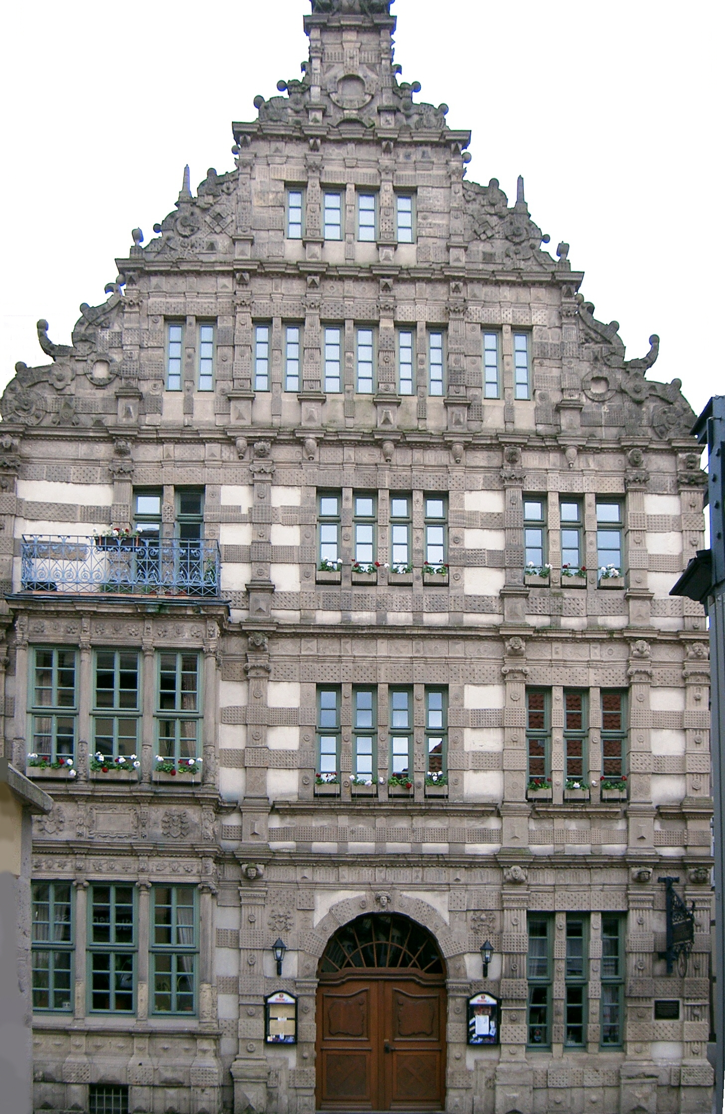 Pied Piper's House, own photo, May 2004.